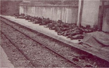 A few of the more than 500 corpses taken from the Italian passenger train which stalled in a tunnel at Balvano on the Potenza line, suffocating almost all on board, on 5 March 1944. The accident was never really explained.